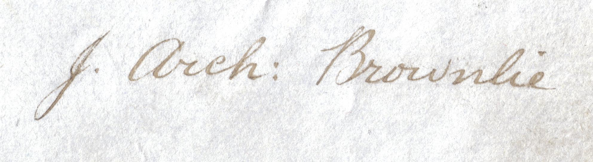 The signature of John Archibald Brownlie, youngest of Monkcastle who purchased Chapelton House on 21 November 1888 from John Cunningham, Ironmaster, Barrhead who's estate had been sequestrated.